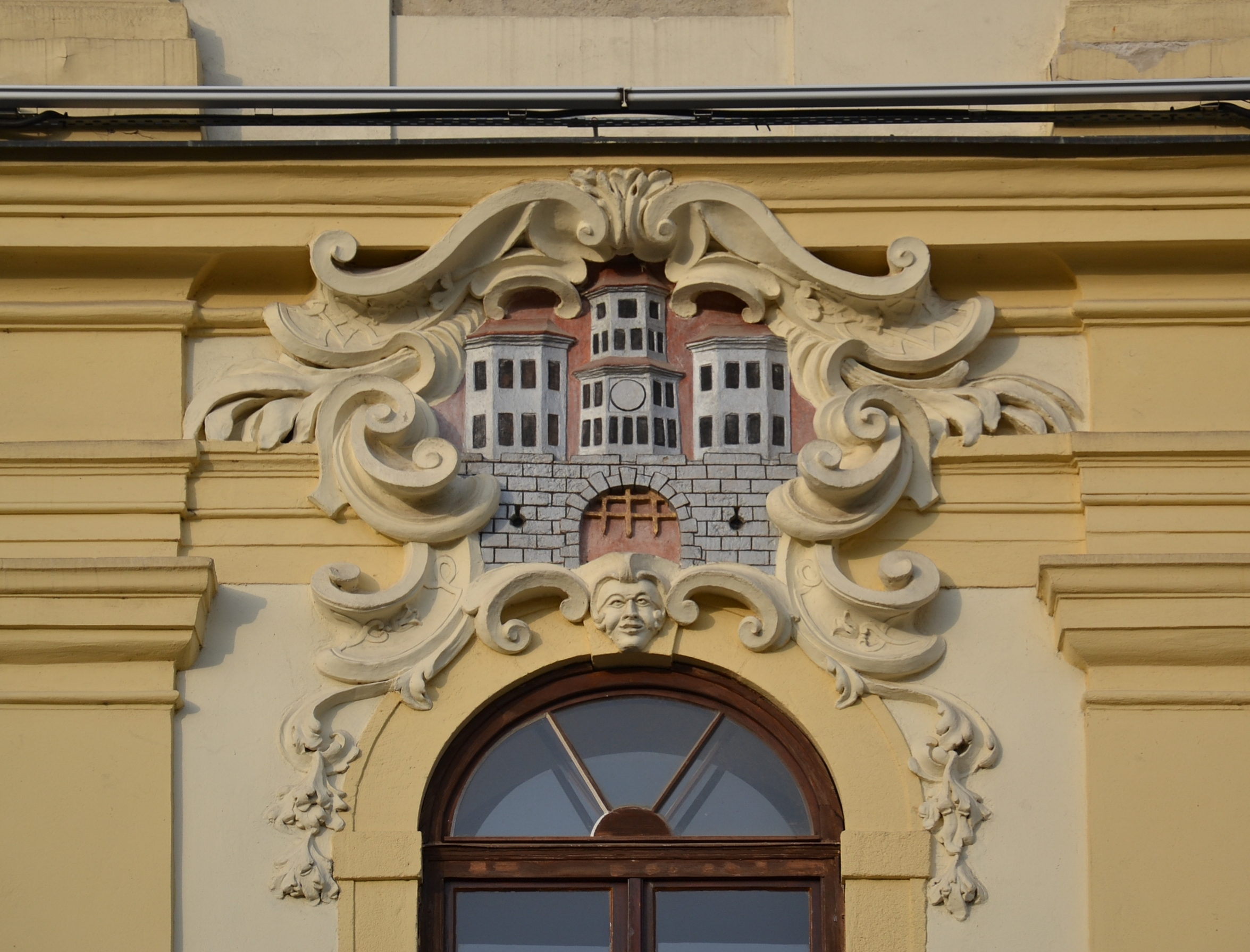 Old town hall in Bratislava - Coat of arms of city